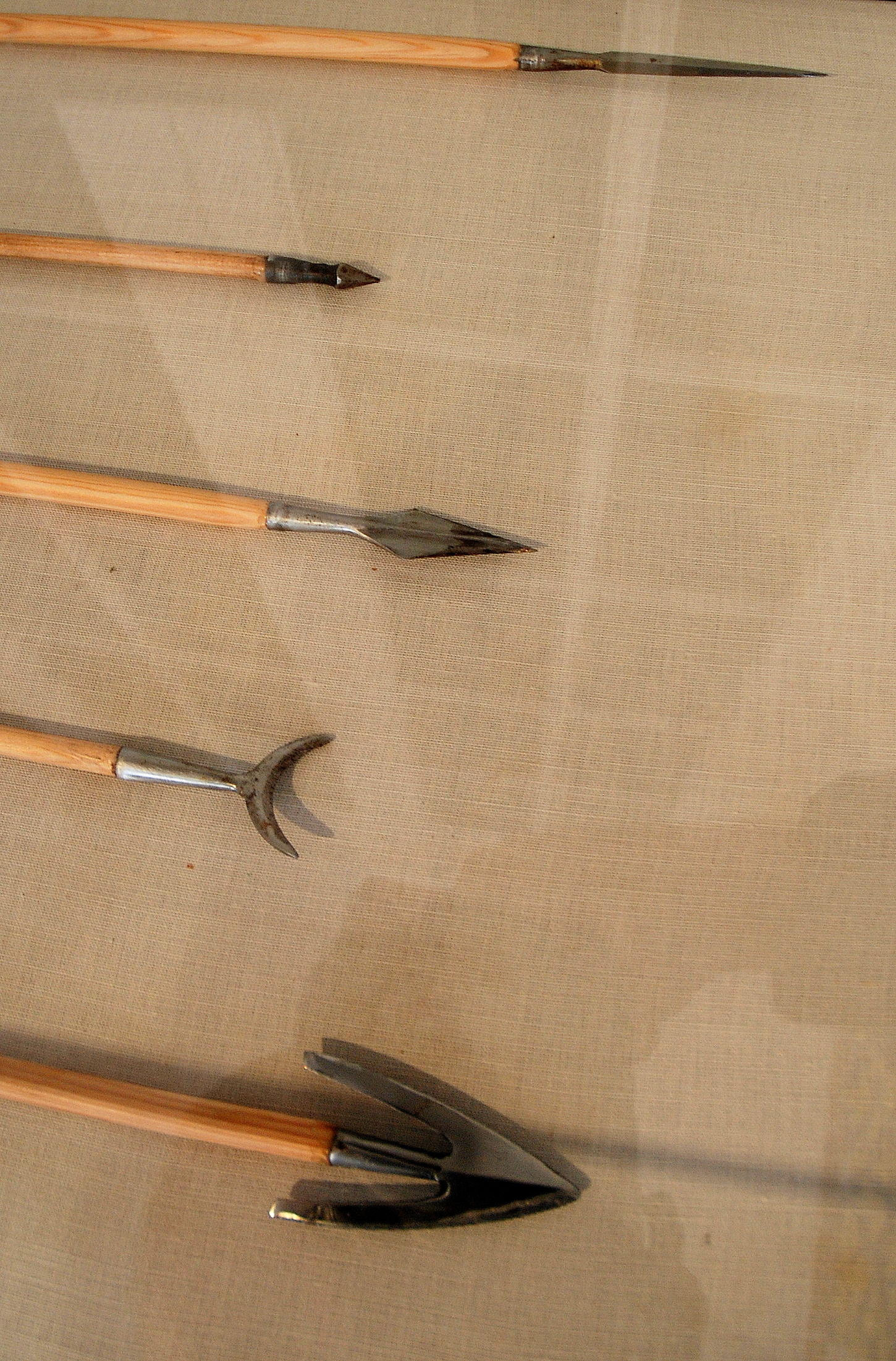 replicas of arrowheads shown at the Emhisarc museum in Crécy-en-Ponthieu, France